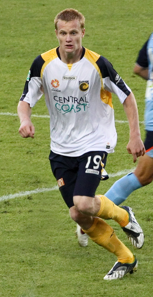 Matt Simon playing against Sydney FC in round 10 of the A-League